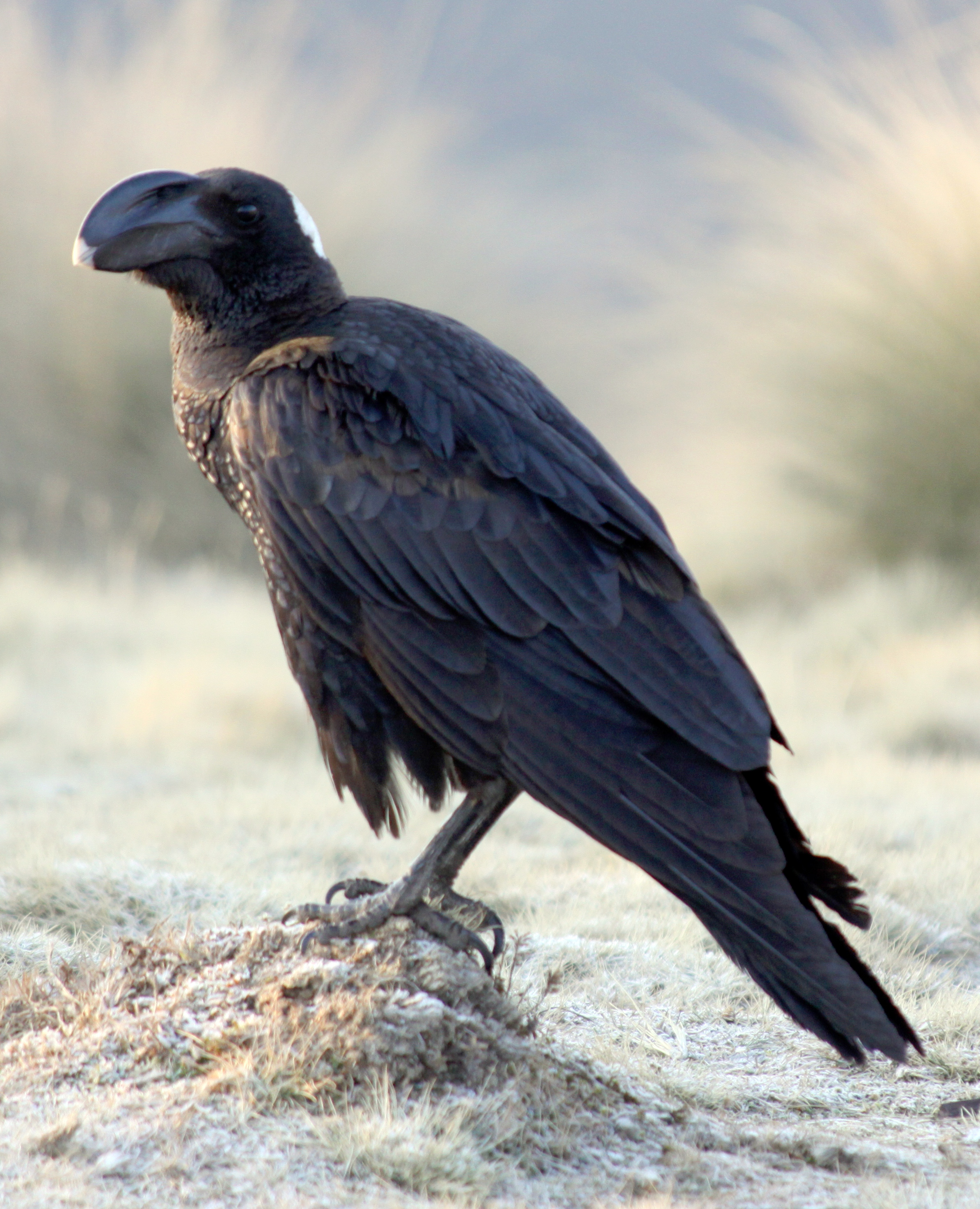 Corvus crassirostris, photographed in Ethiopia This is a retouched picture, which means that it has been digitally altered from its original version. Modifications: Cropped. The original can be viewed here: Flickr - don macauley - Corvus crassirostris.jpg. Modifications made by Roarjo.